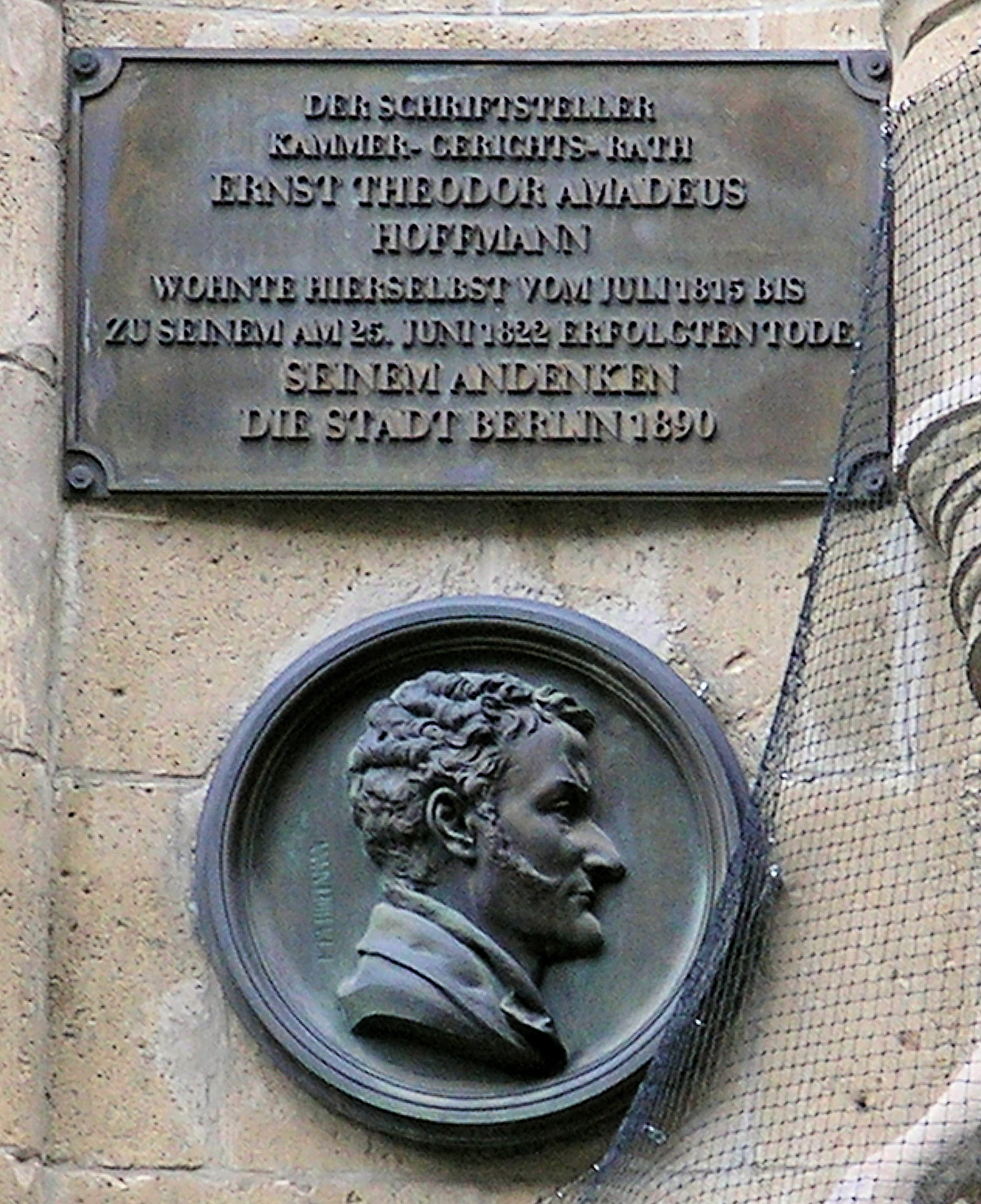 Memorial plaque, E.T.A. Hoffmann, Charlottenstraße 56, Berlin-Mitte, Germany Koordinate:52°30′48″N 13°23′28.8″E / 52.51333°N 13.391333°E